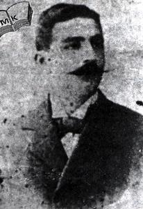 Anastasios Vogas